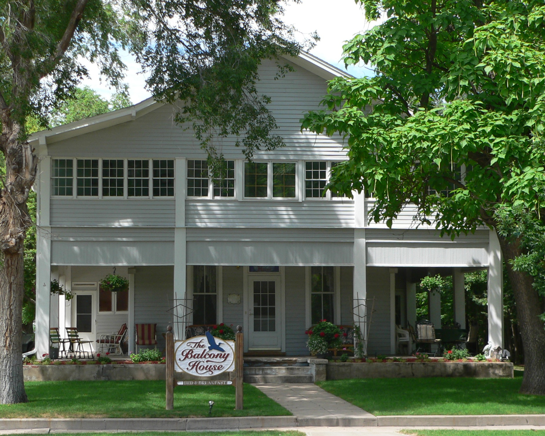 Balcony House at northeast corner of 10th Street and Court Street in Imperial, Nebraska; seen from the south. The building was constructed as a rural school in the 1880s, and was moved to Imperial in 1921, where it was used as a tourist camp. Soon thereafter, additions were made to it. It is currently operated as a bed-and-breakfast. The building is listed in the National Register of Historic Places.